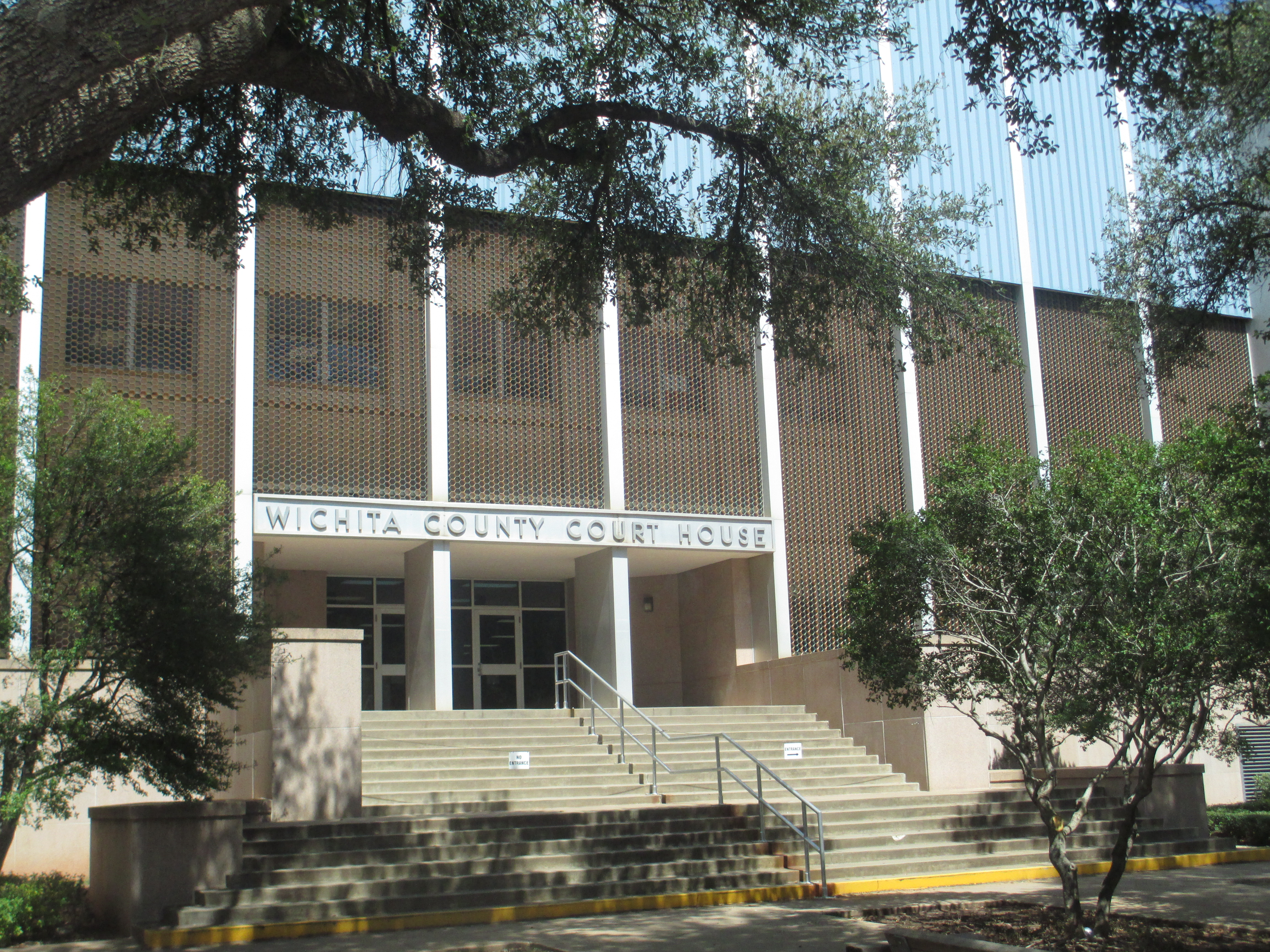 I took photo of Wichita County Courthouse in Wichita Falls, TX, with Canon camera, April 5, 2013. Billy Hathorn (talk) 01:35, 11 April 2013 (UTC)